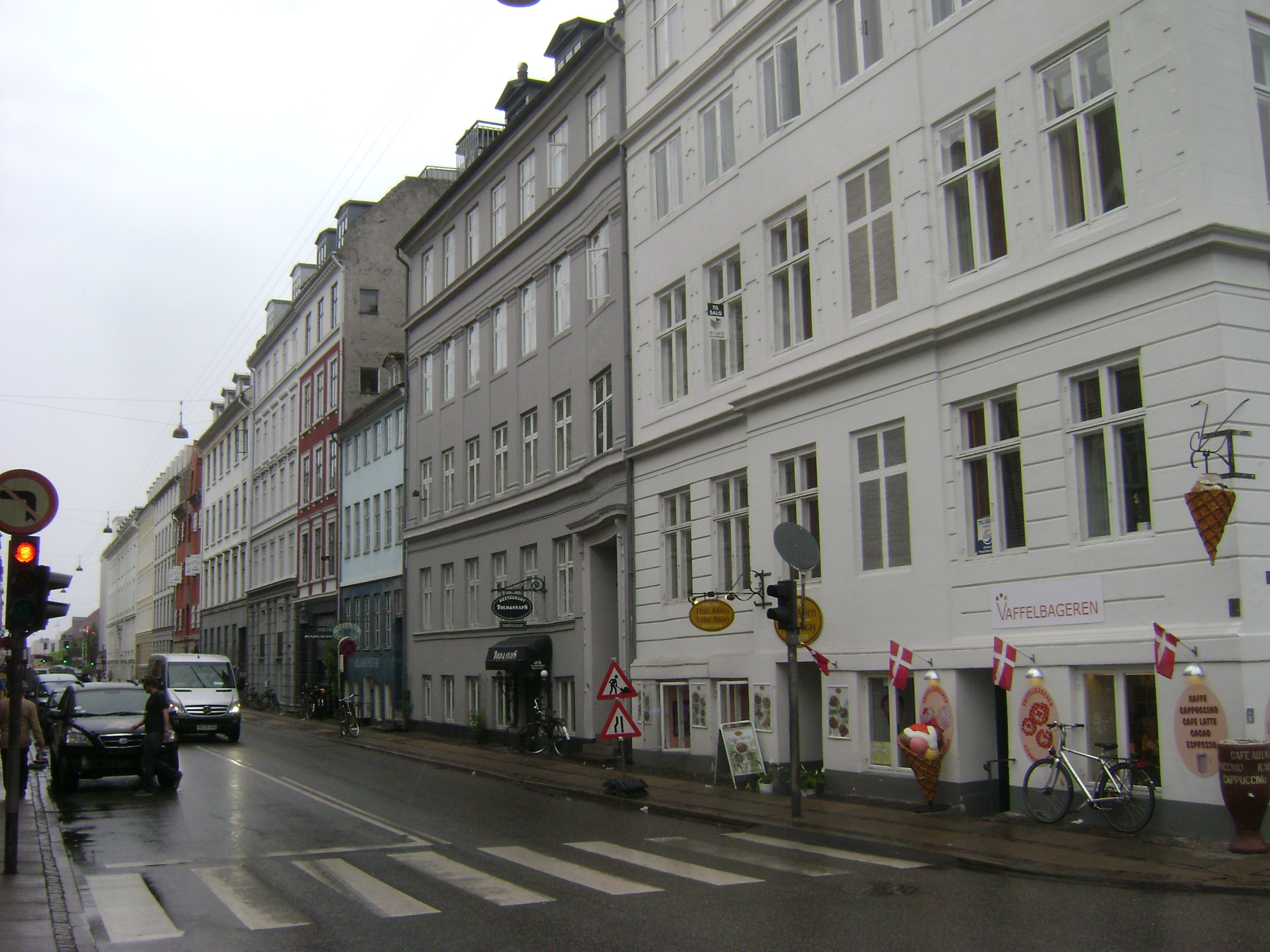 Denmark. Capital Region. Copenhagen